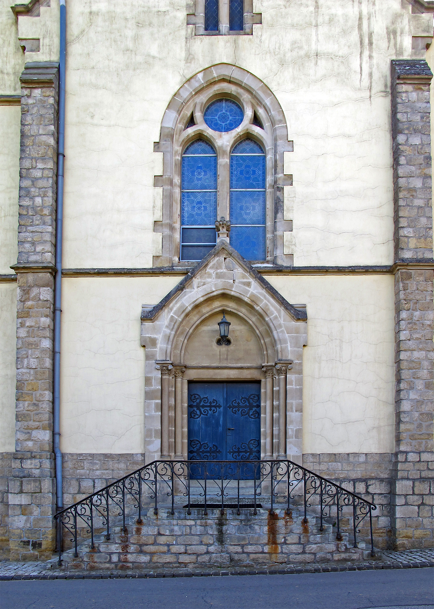 Church of Filsdorf, Luxembourg